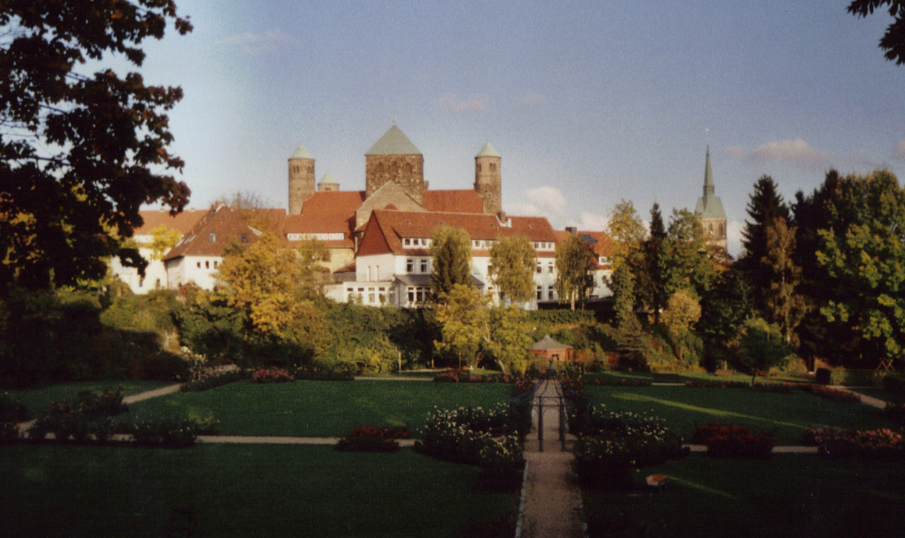 Saint Michael's Church in Hildesheim as seen from the West